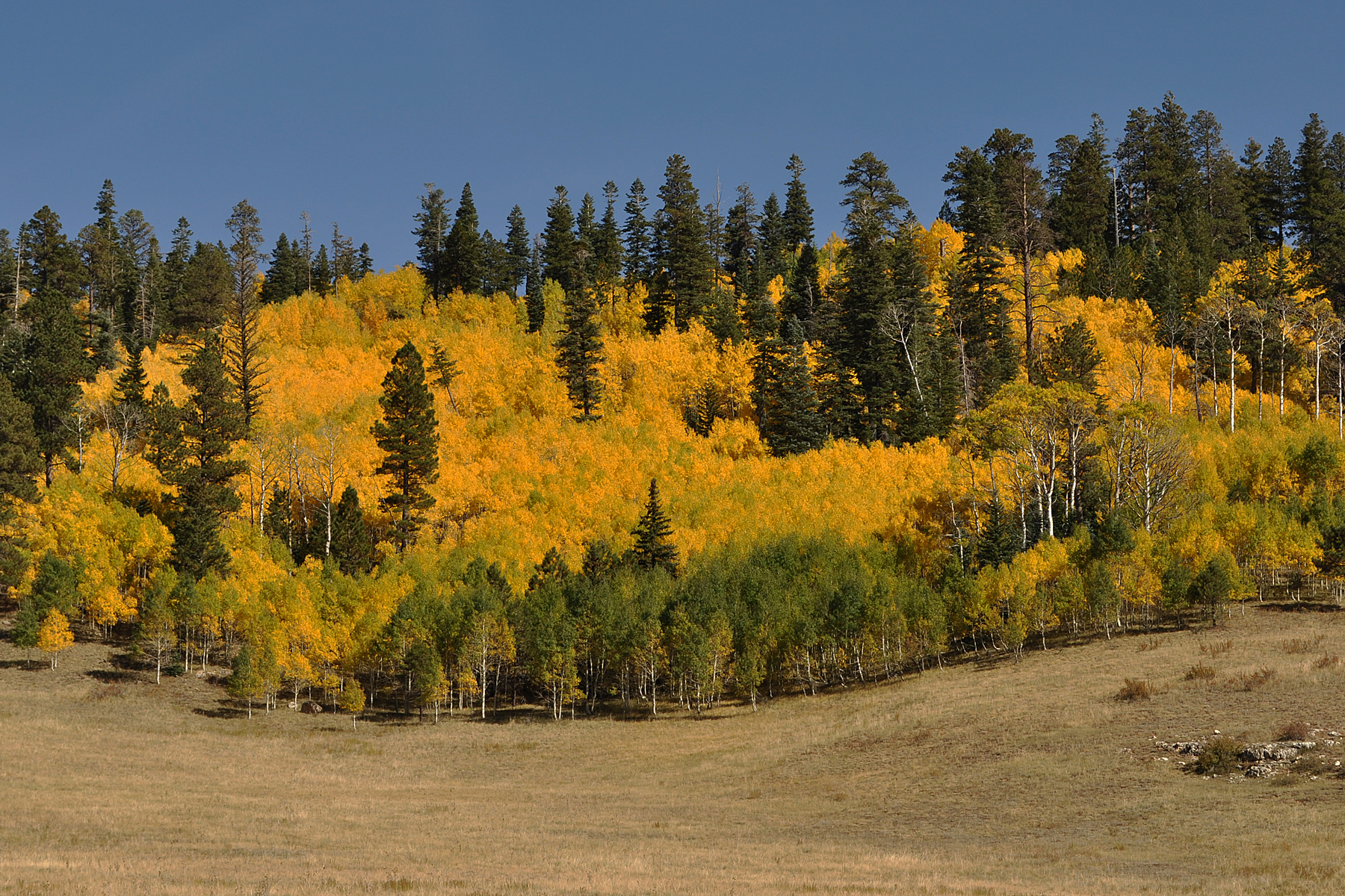 Aspen trees (Populus tremuloides) in fall color on the North Kaibab Ranger District. Please give credit to: U.S. Forest Service, Southwestern Region, Kaibab National Forest.